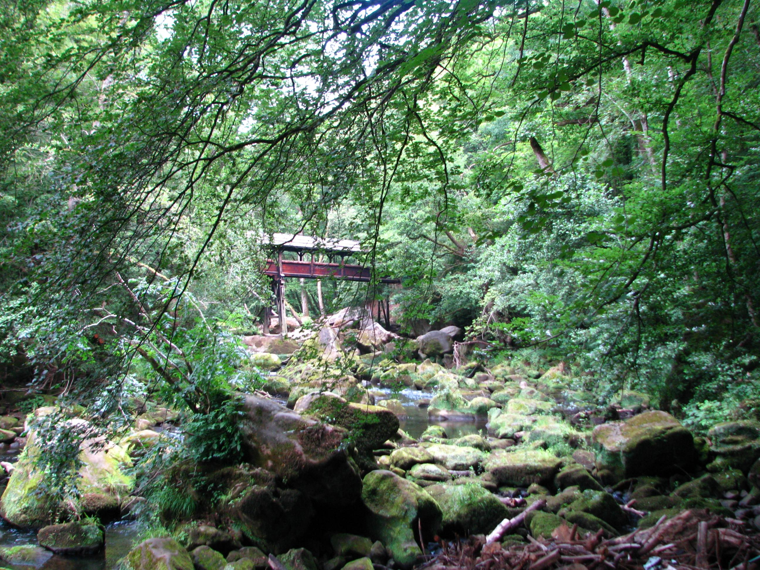 Rapids of the river Prüm close to Irrel